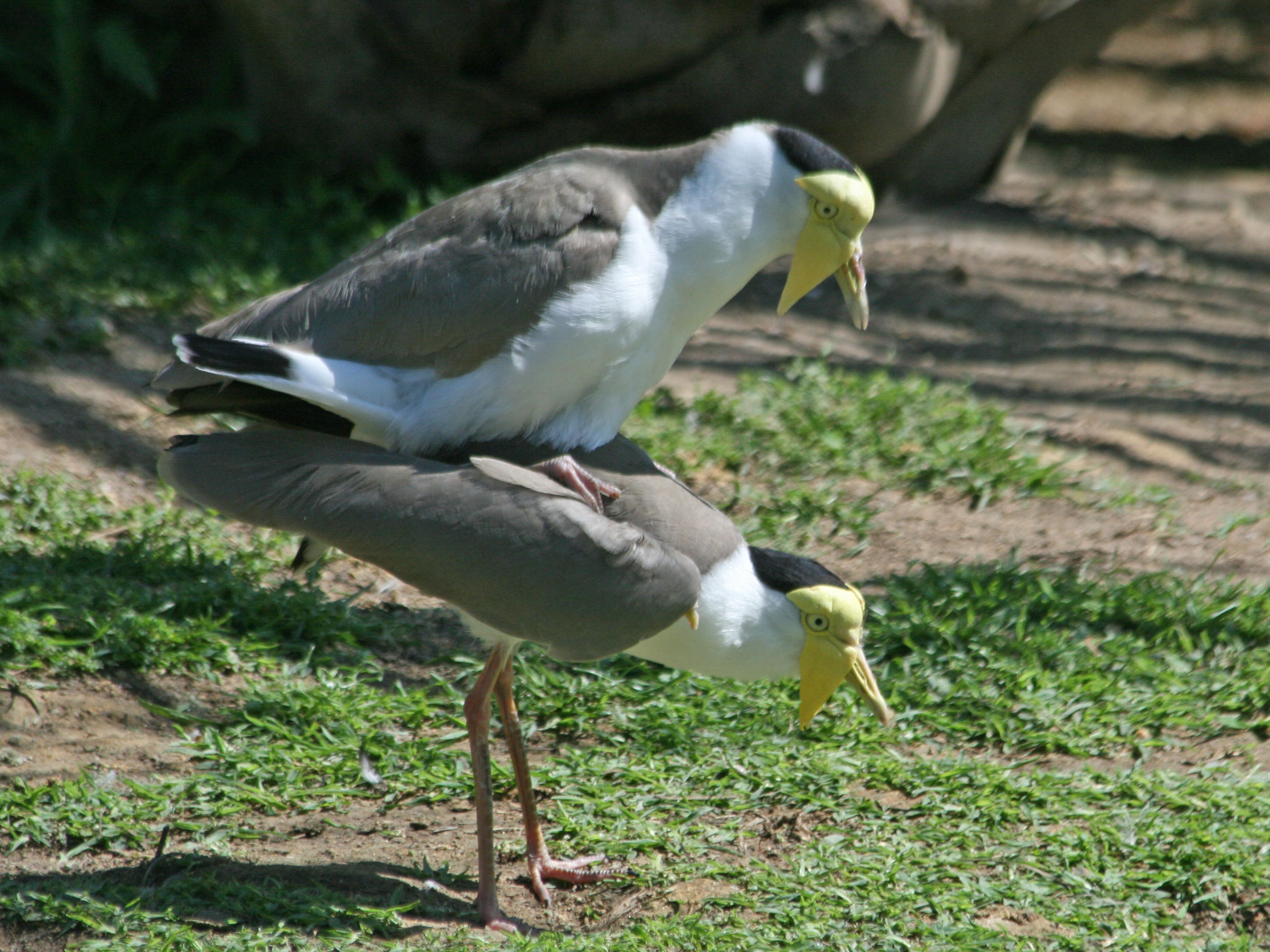 Masked Lapwing, also Crowned Plover (Vanellus miles) - Sylvan Heights Waterfowl Park, Scotland Neck, North Carolina